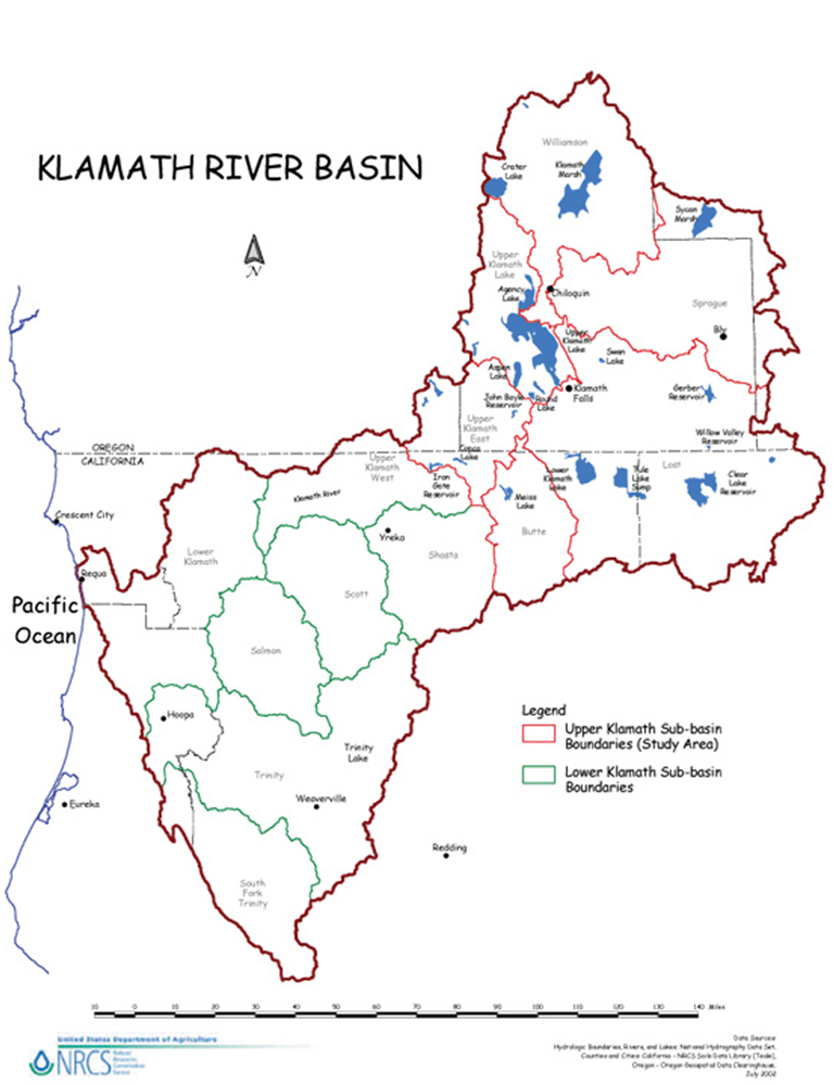 Map of the Klamath River watershed — showing sub-basin boundaries, in northwestern California and southern Oregon. Flowing west through the Klamath Mountains to its mouth at the Pacific in Redwood National Park.